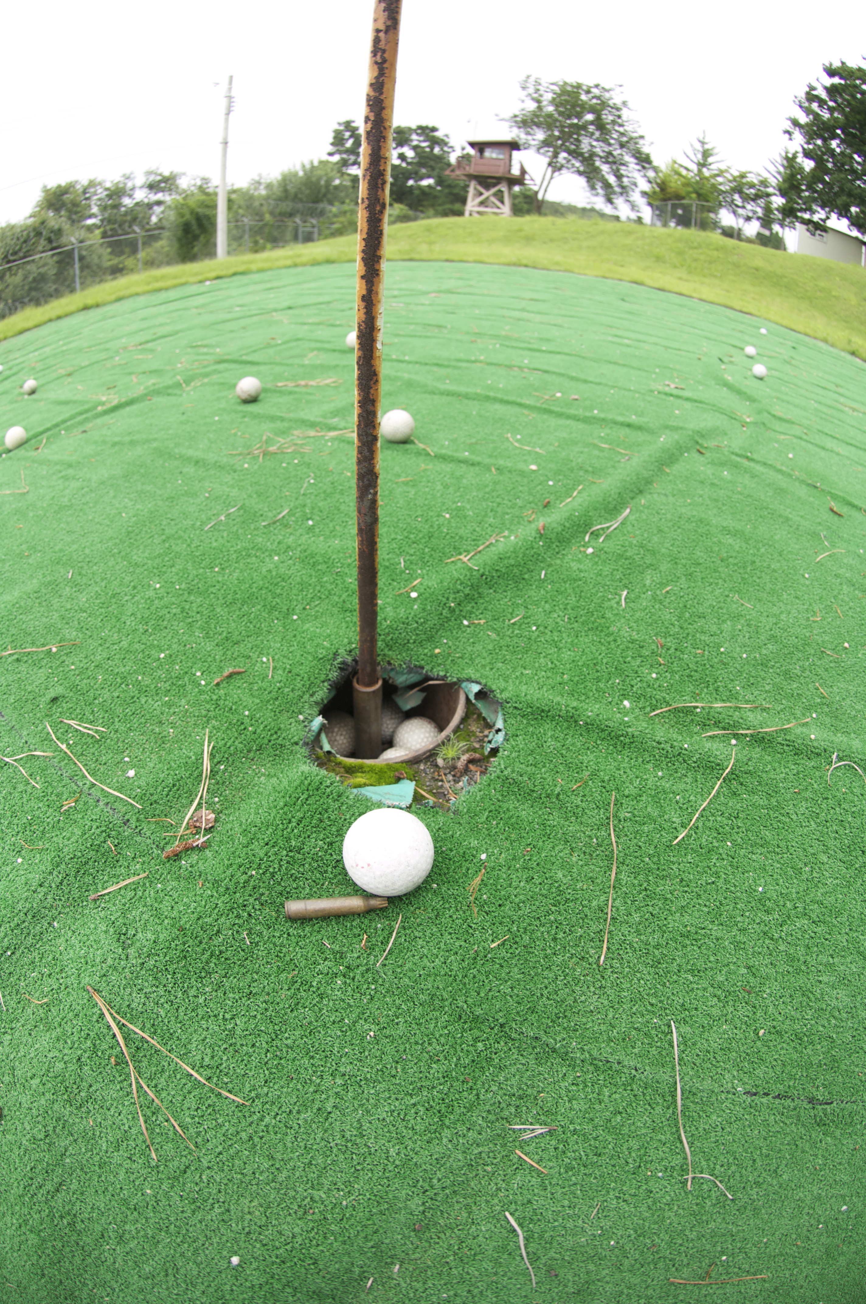 The "World's Most Dangerous Golf Course". Camp Bonifas, Korean Demilitarized Zone. U.S. Army Korea Official DMZ Image Archive